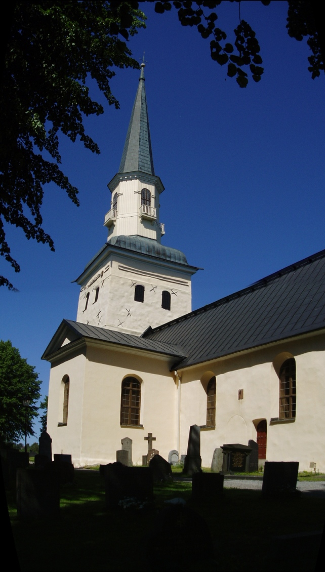 church on Ekerö, Sweden